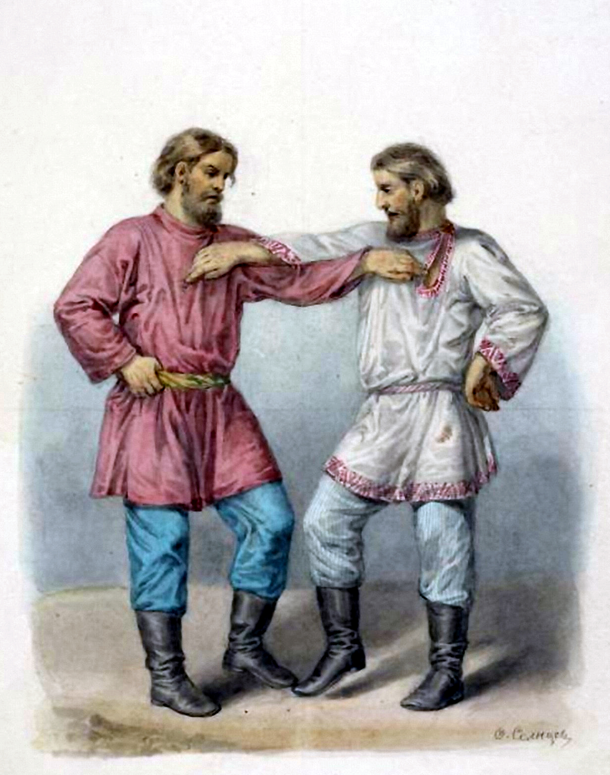 Fight the Russians.